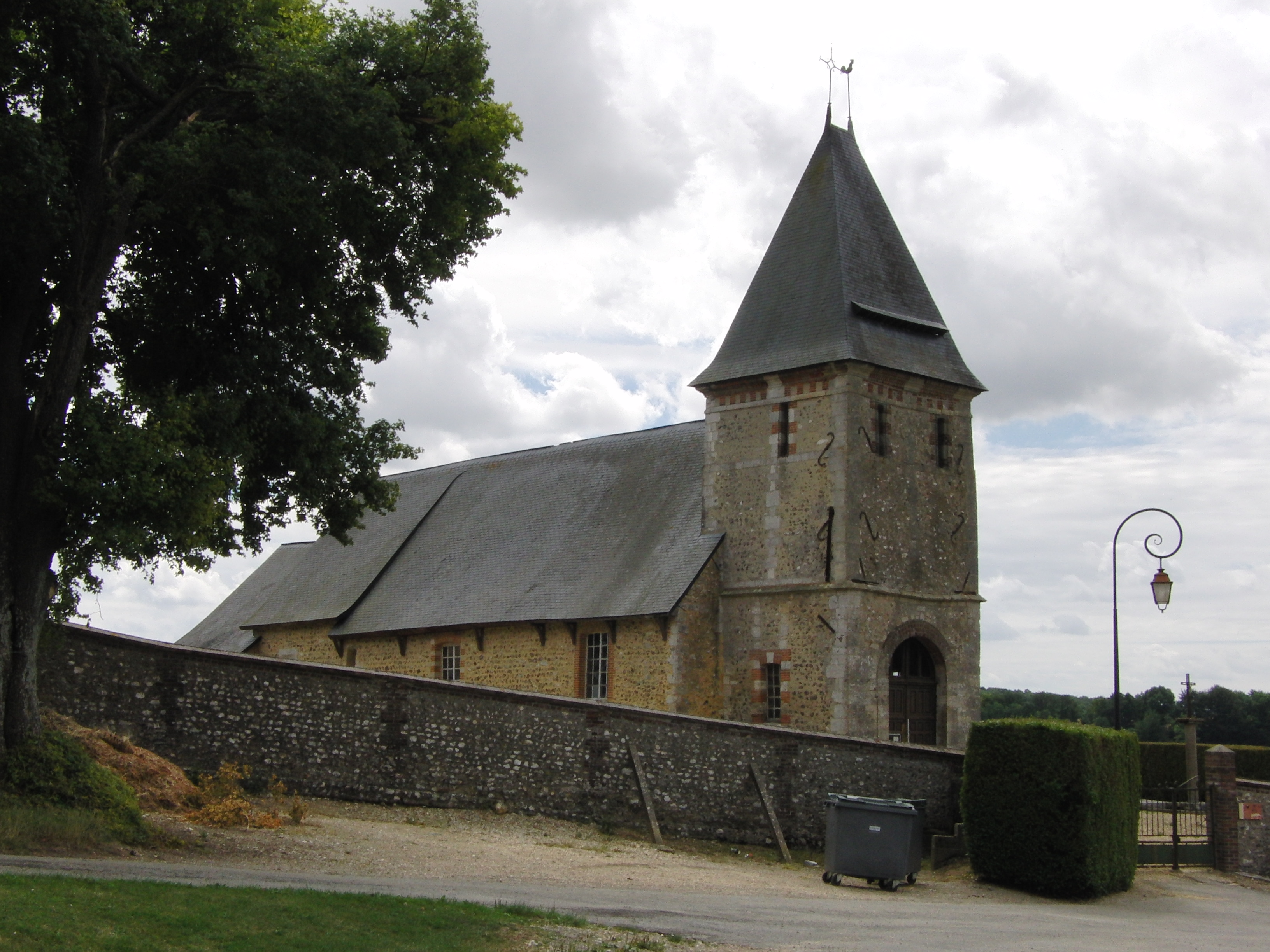 St Pierre church - Touffreville. Herring-bone masonry in the north wall of the nave.